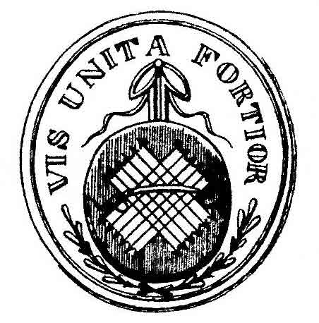 Sigillum Minor Senatus Vis Unita Fortior